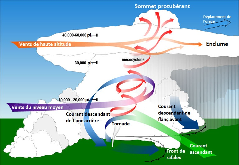 A schematic of the basic morphology of a tornadic supercell